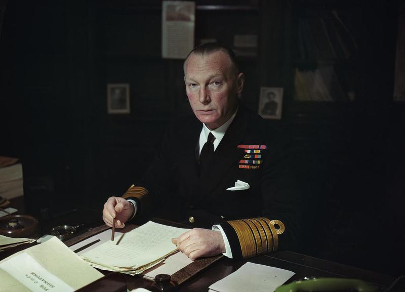 Admiral of the Fleet Sir John Cronyn Tovey, Gcb, Kbe, Dso Portrait of Admiral of the Fleet Sir J C Tovey, GCB, KBE, DSO. Admiral Tovey served as Commander in Chief of the Home Fleet from 1940-1943, he then went on to serve as Commander in Chief Nore, as well as First and Principal Naval Aide de Campe to the King from January 1945. He is pictured sitting at his desk, most likely while serving as Commander in Chief Nore, at Chatham, Kent.